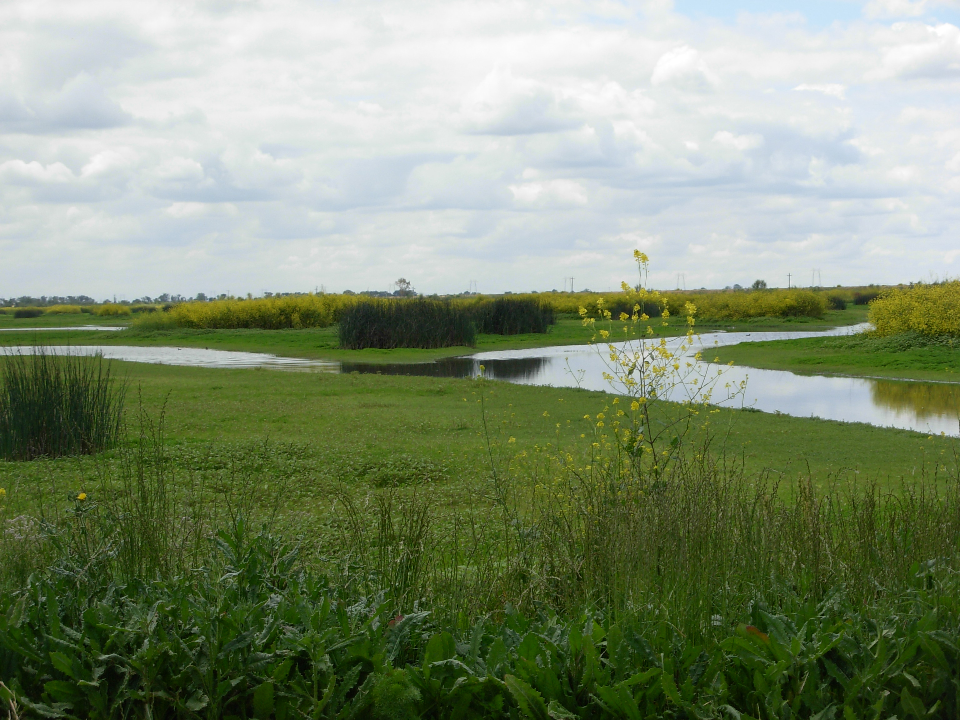 Rain soaked wetlands in Yolo Bypass Wildlife Area nature preserve — in the Sacramento Valley, Yolo County section, California.